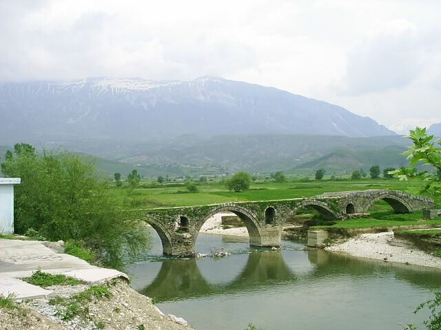 Drinos River canyon, Albania